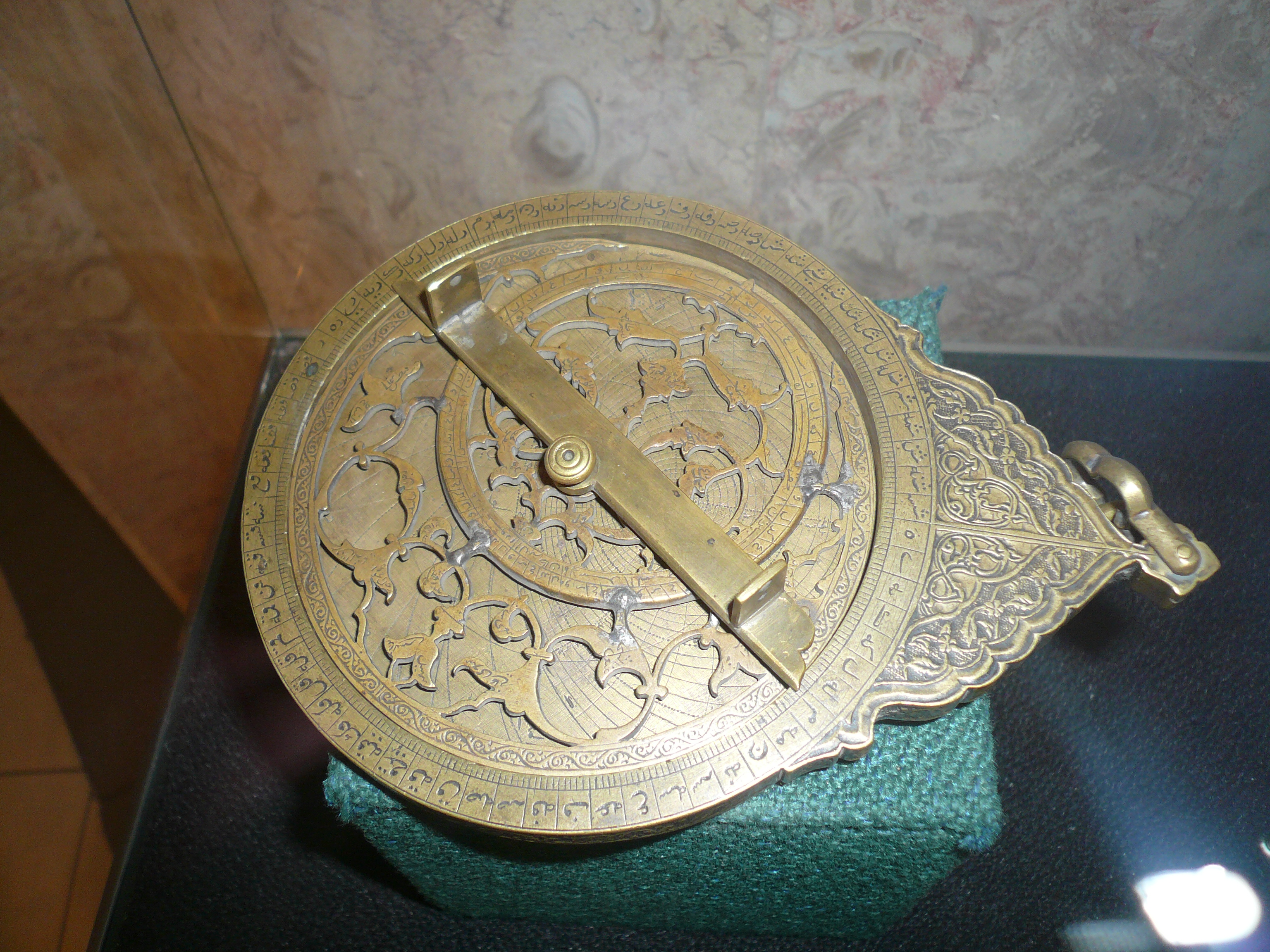 Astrolabe. XVII c. Bukhara